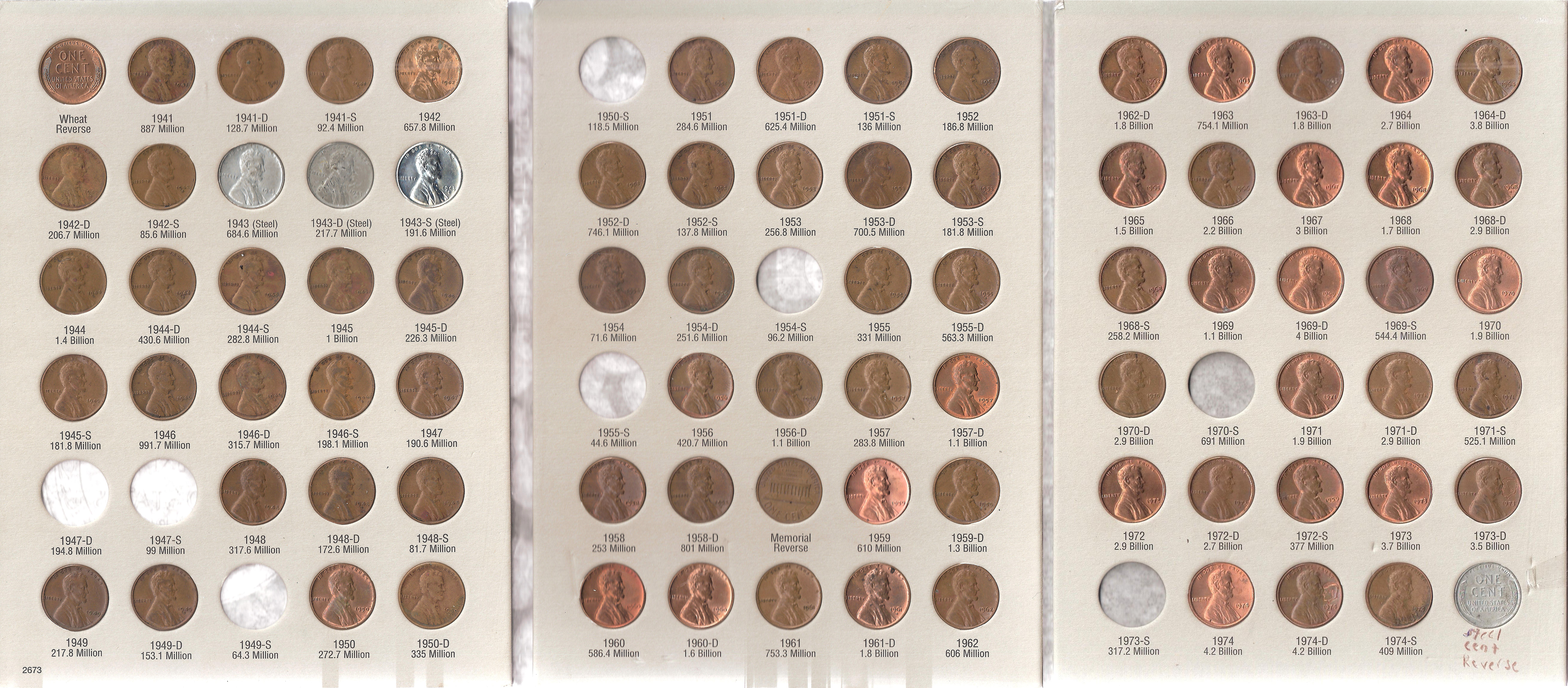 U.S. coin collection featuring Lincoln pennies from 1941 to 1974. Nearly complete set in a folder by Whitman Publishing, LLC. Also features two error pennies and a description page.